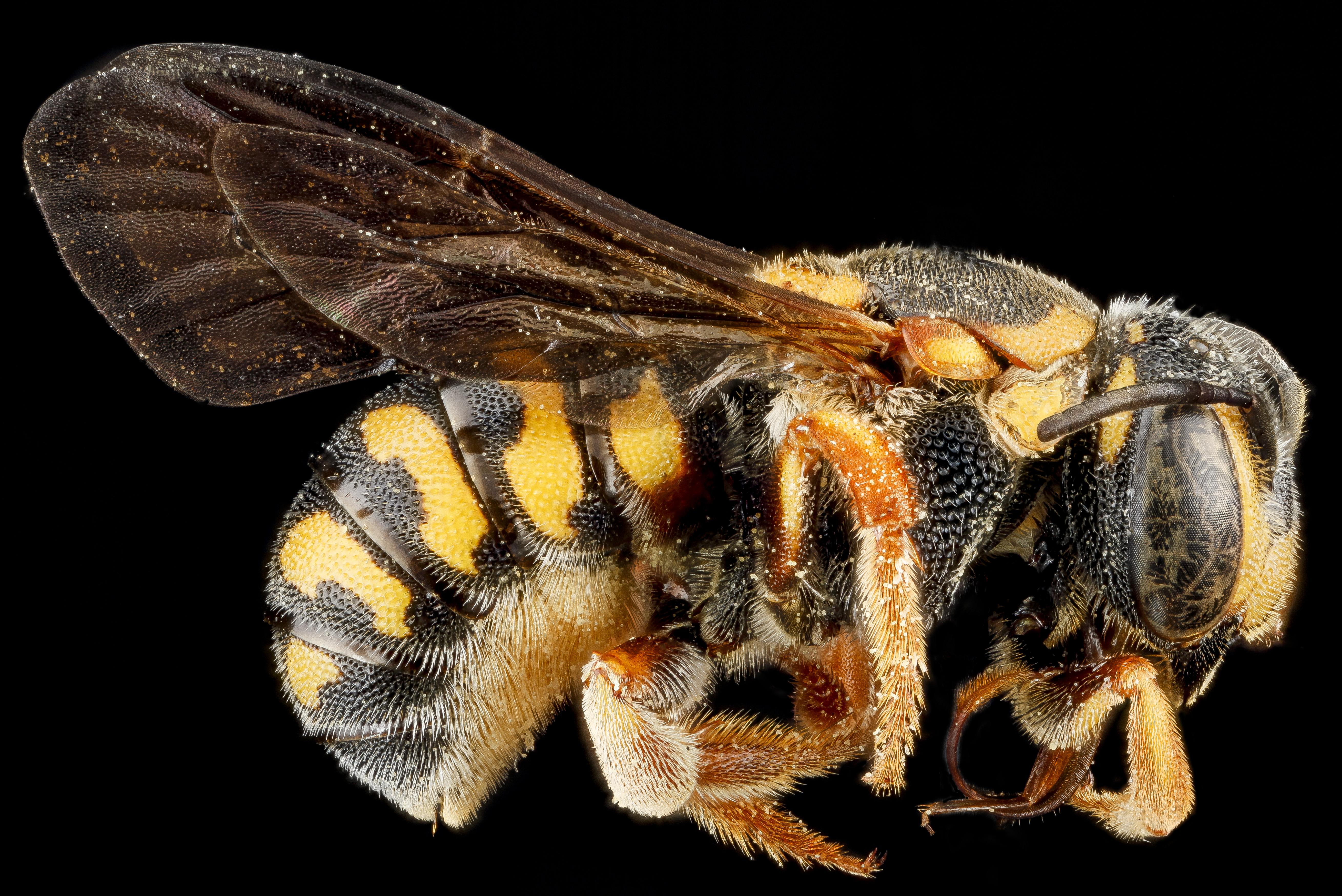 Dianthidium curvatum, female. South Carolina, carolina sandhills national wildlife refuge.